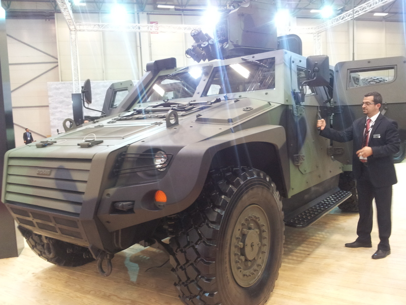 Otokar Cobra 2 IDEF 2013